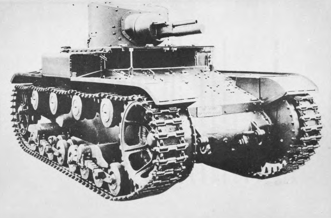 The Light Tank, T1E4, a U.S. Army light tank built in 1932 by modifying a T1E1. This tank had a completely different layout from older T1 versions, with the engine now in the rear, the drive in the front, and the turret in the middle. Its suspension was also new, with semi-elliptic leaf springs and articulated four-wheel bogies. The gun was a 37 mm semi-automatic gun M1924, longer than the T1E1's M1916 but shorter than the long-barreled Browning of the T1E3. Here the driver's front hatch is open.